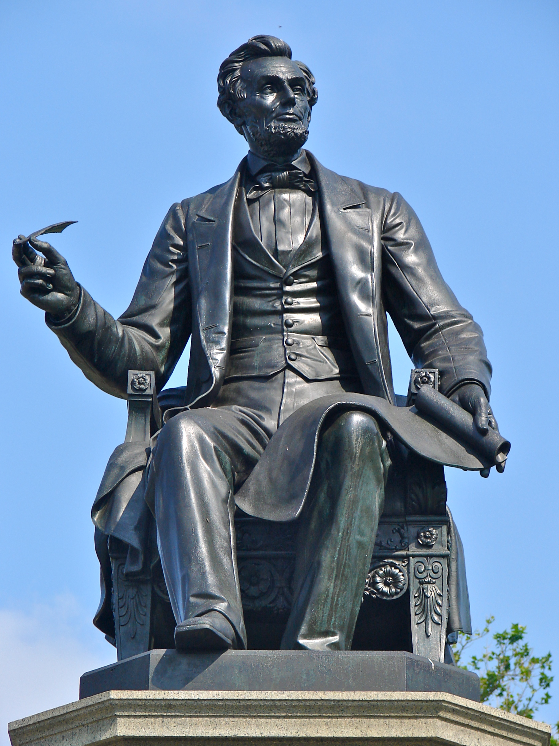 Statue of a seated Abraham Lincoln signing the Emancipation Proclamation. Commissioned soon after his assassination, unveiled in 1871 in Philadelphia's Fairmount Park. By Randolph Rodgers (sign slightly unclear here)